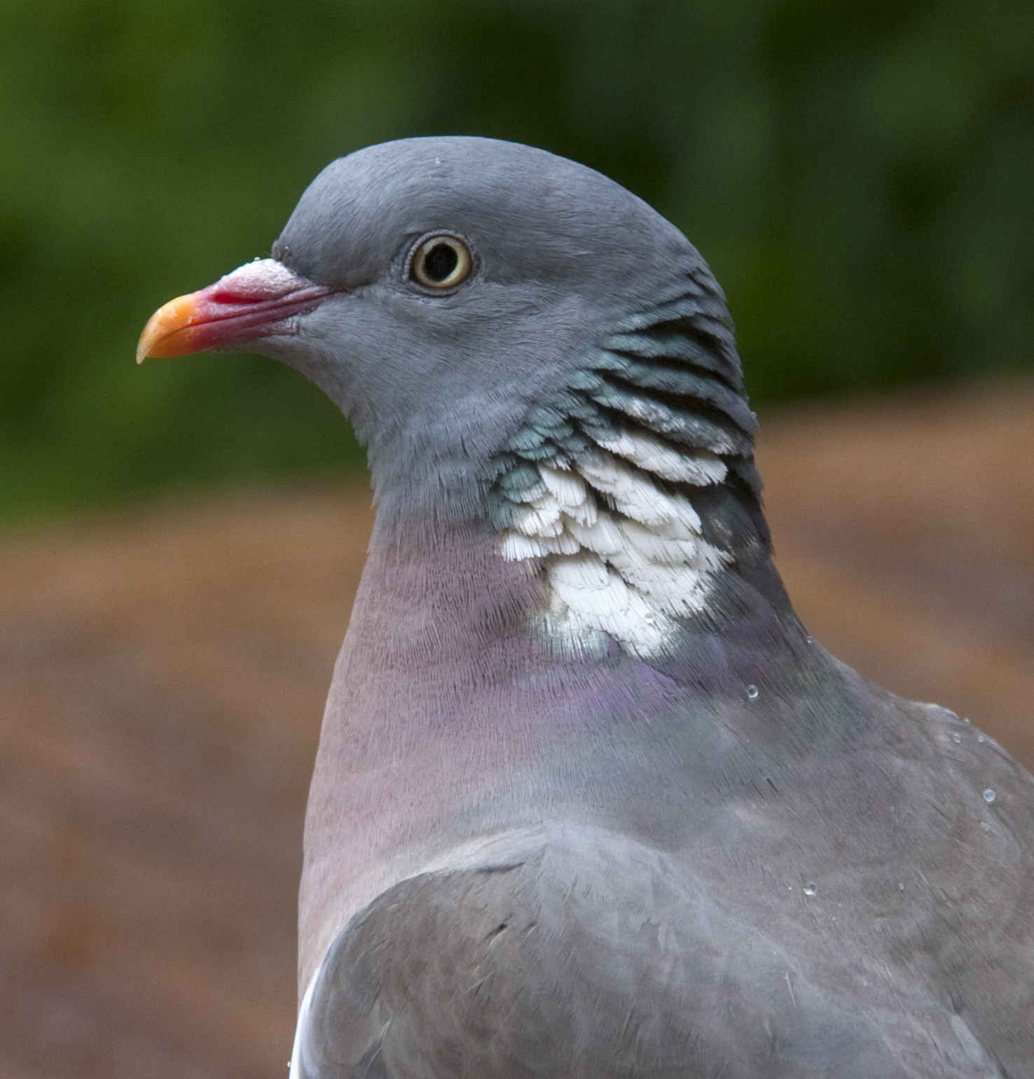 An adult Common Wood Pigeon in Quinton, Birmingham, England.